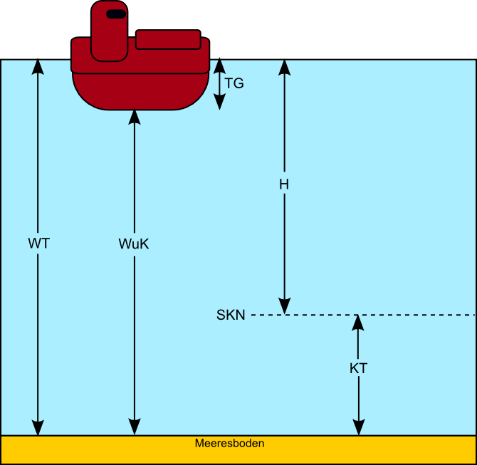 Abbreviations used in German literature for tidal constituents.